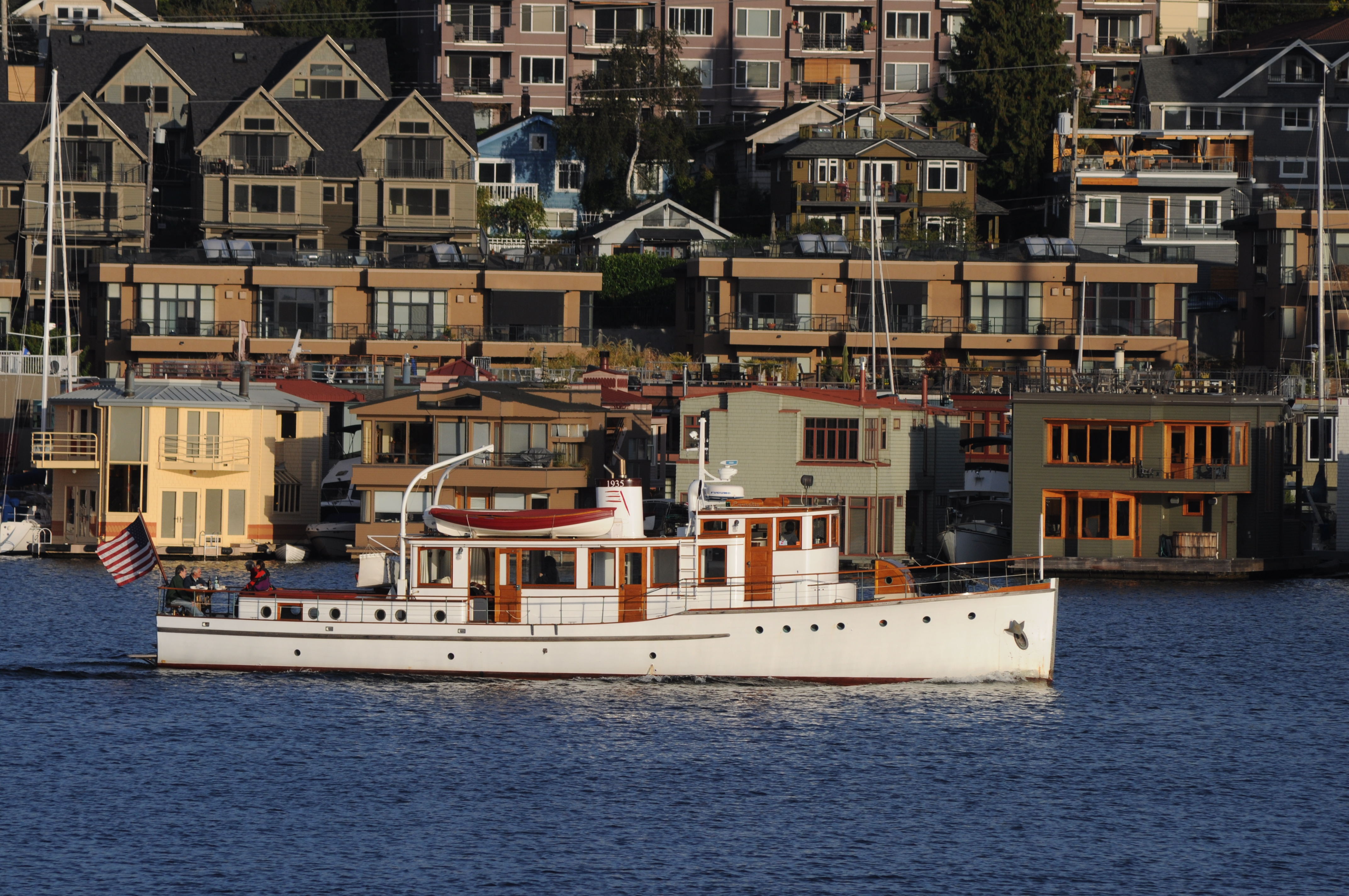 The diesel yacht Carmelita on Lake Union, Seattle, Washington, seen from Gas Works Park; Eastlake neigborhood in the background. A much older, undated, image of the same boat can be seen at